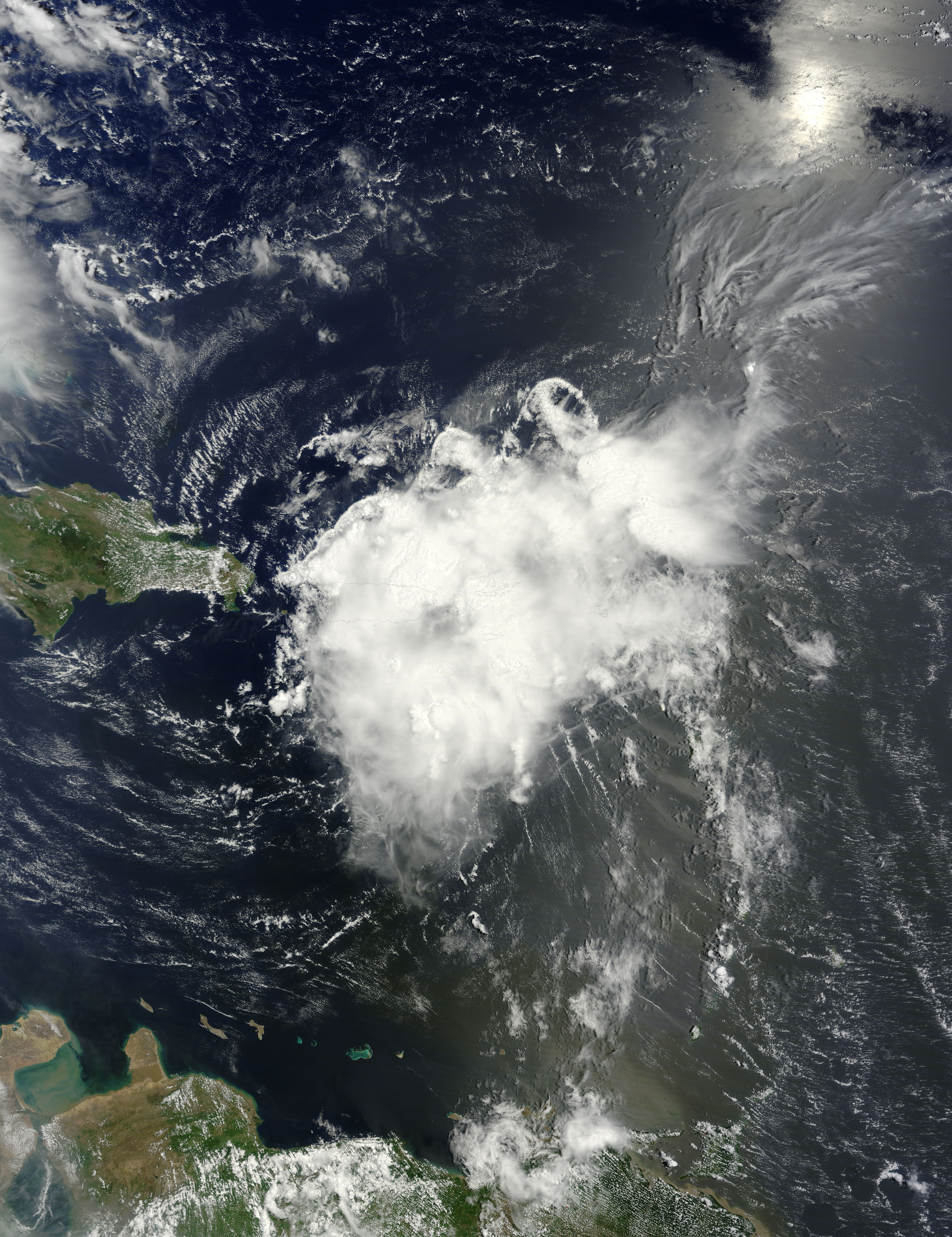 Tropical Storm Bertha on August 2 at 1455Z